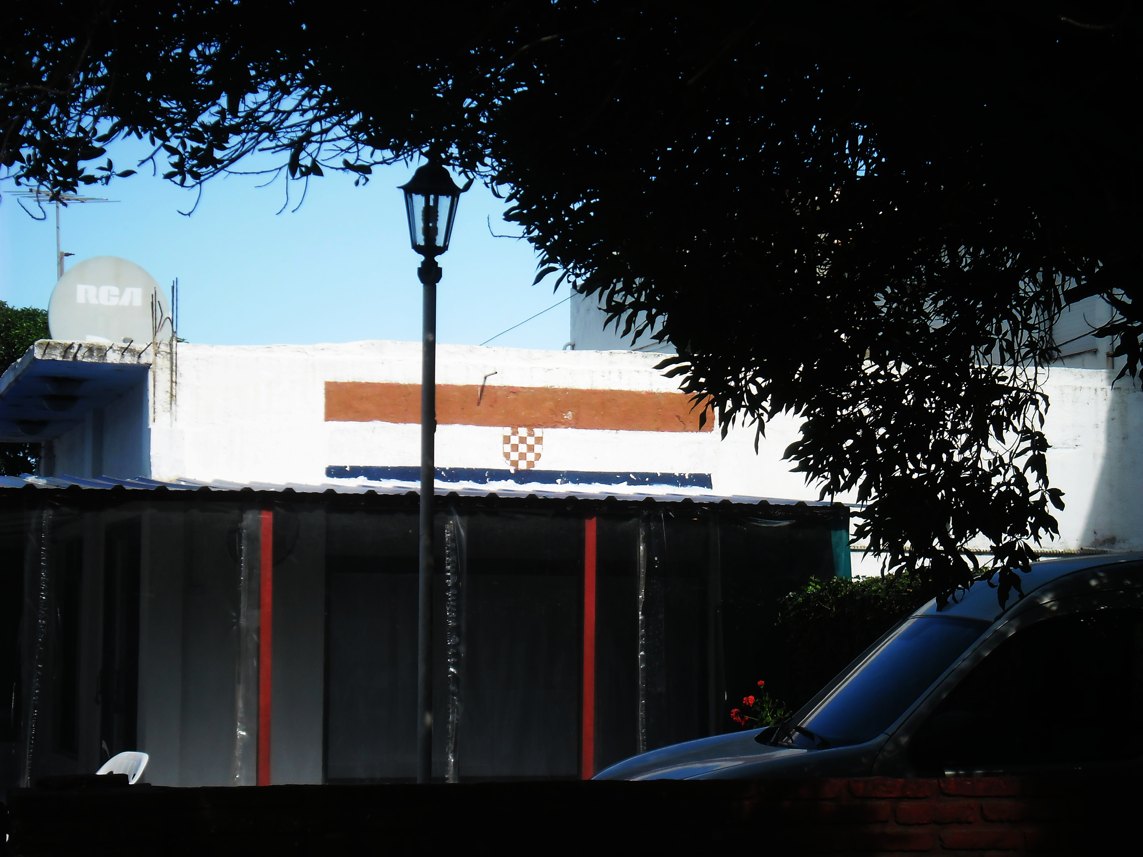 Croatian Restaurant in Mar del Sud, Buenos Aires Province, Argentina.